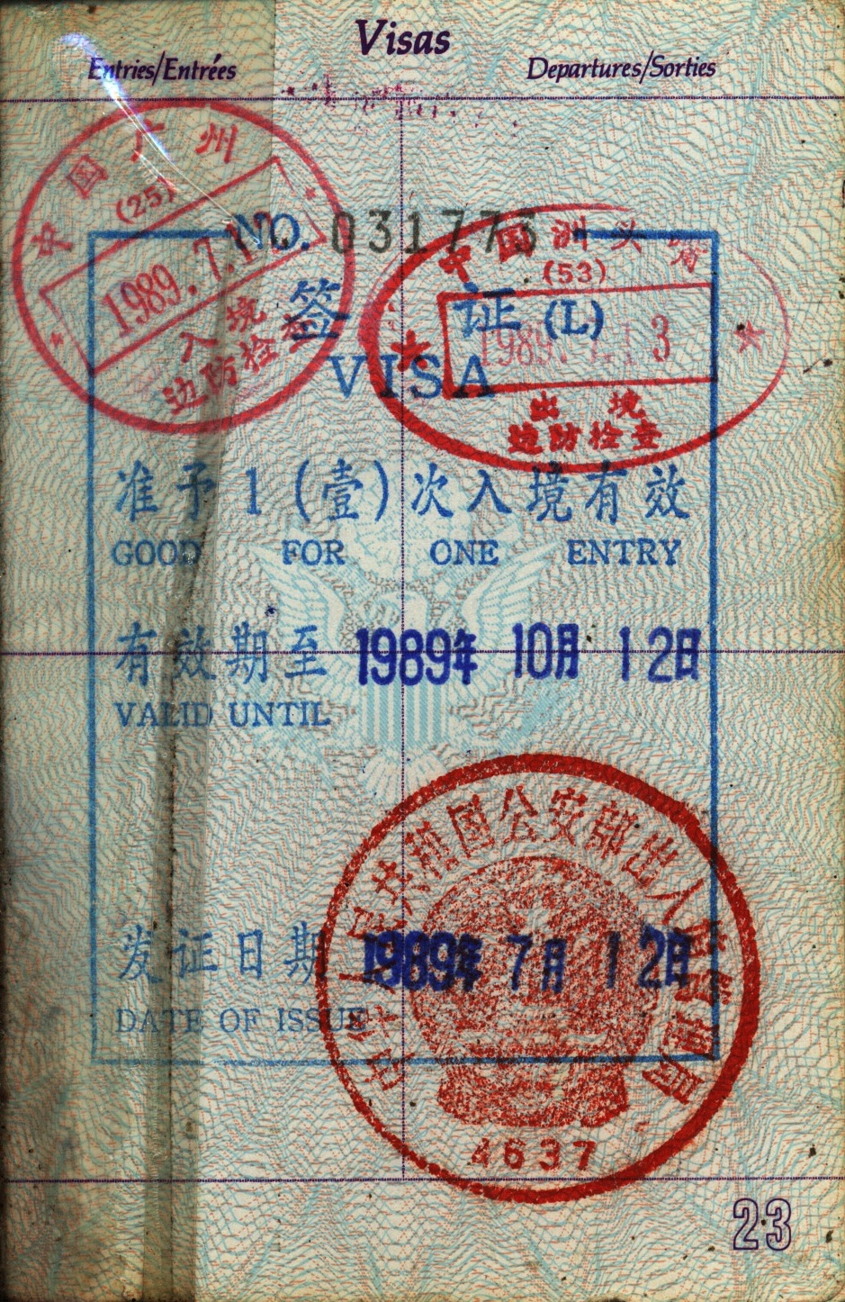 Chinese tourist visa on a US passport, with entry stamp from Guangzhou. Issued in 1989